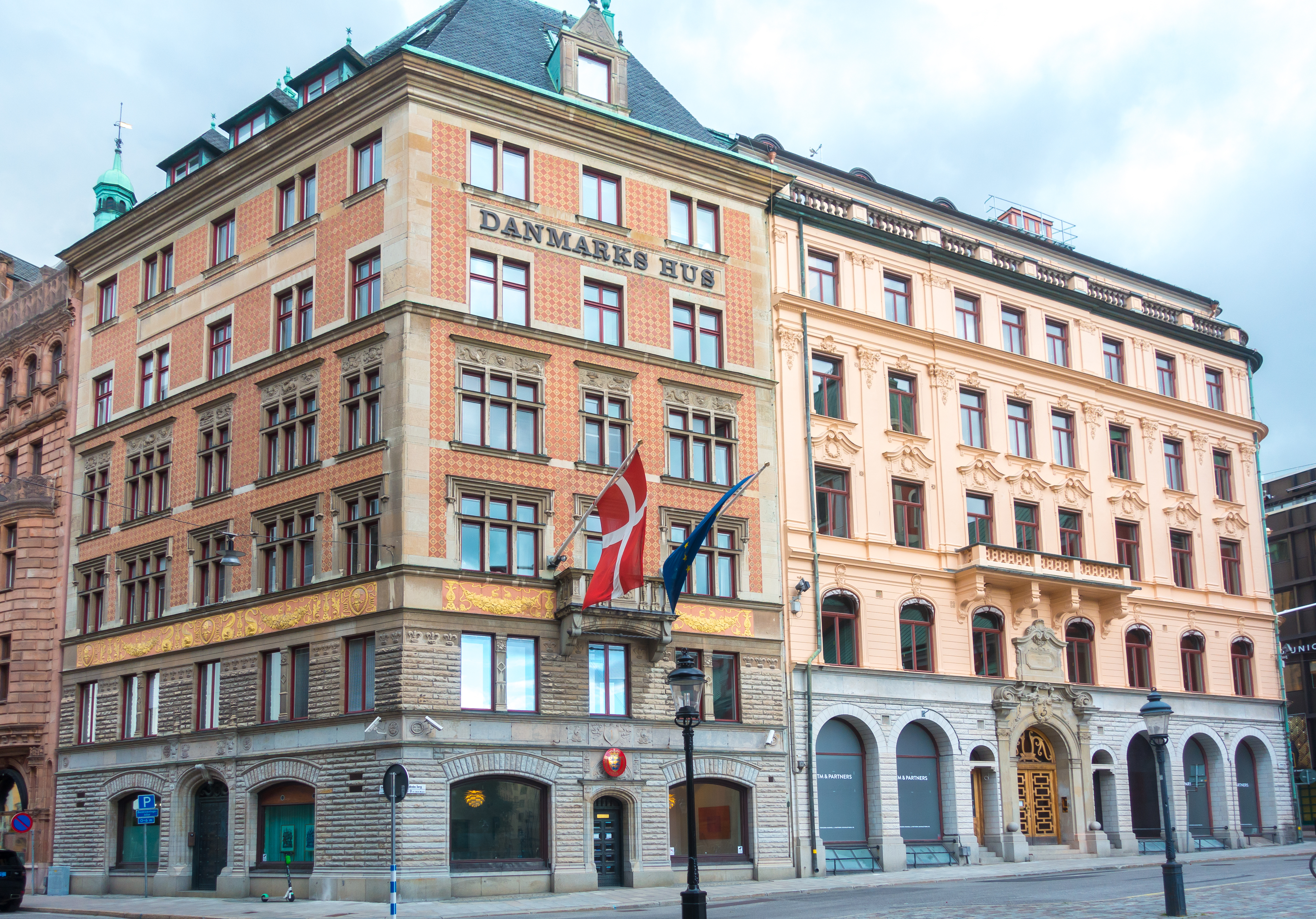 Danmarks hus in Stockholm in July 2020.